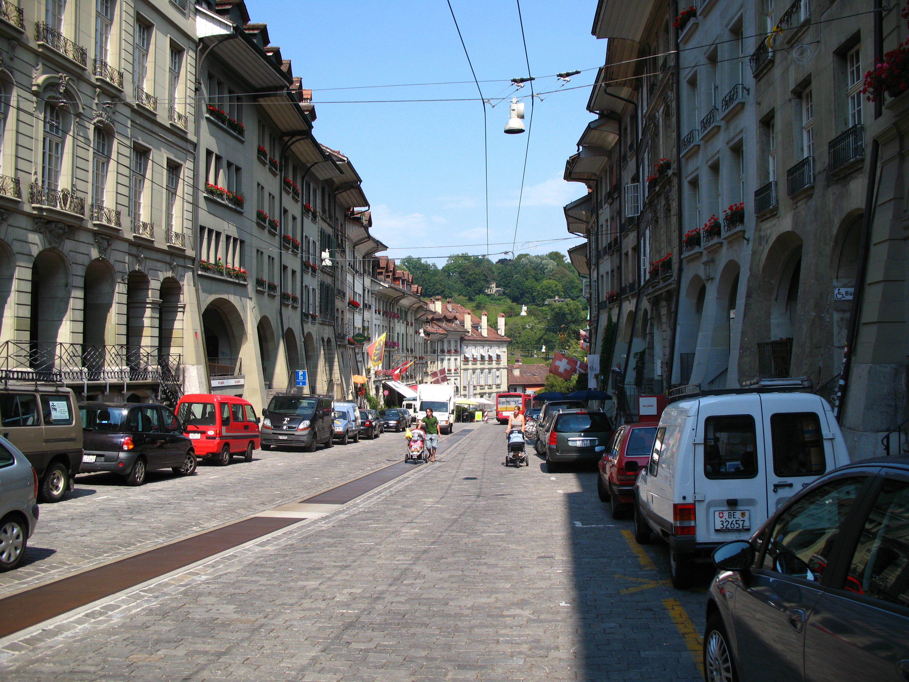 Justice Lane, Berne, Switzerland